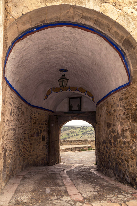 Puerta de entrada y salida de Pedraza.